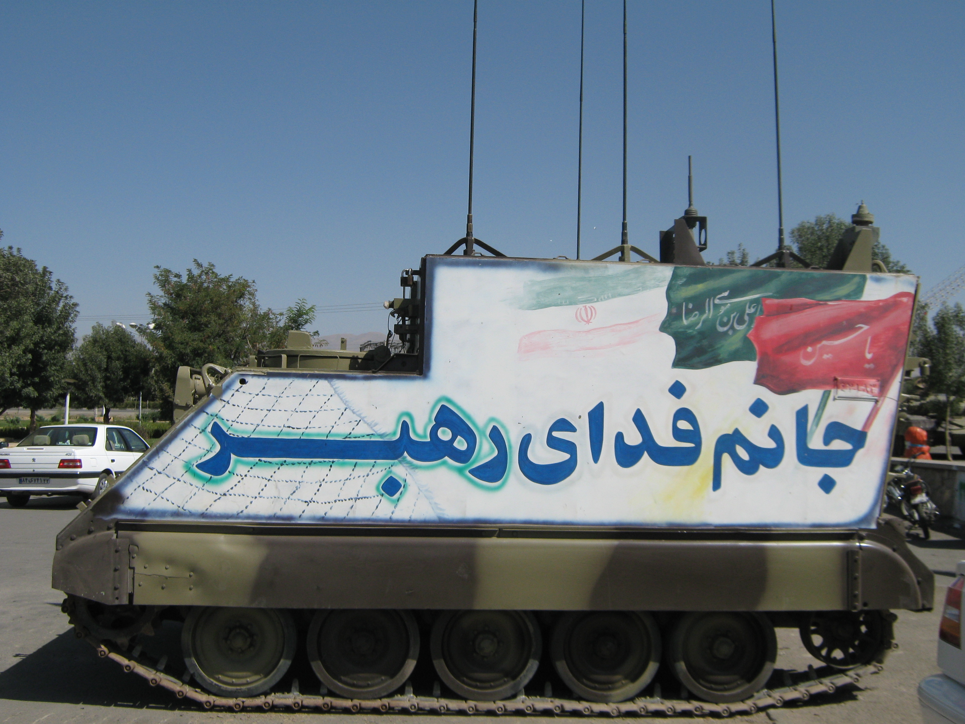 Holy Defence Week Expo - Simorgh Culture House - Nishapur